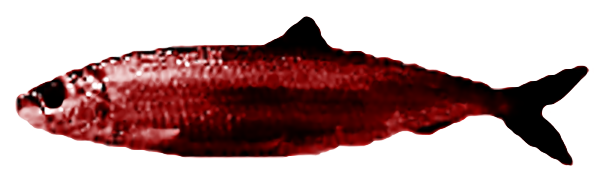 A red herring :-) NOTE: This is a joke image, it is not literally a Red Herring (the species does not exist), nor is it meant to be an image of kipper (kippered red herring does not look like this). See red herring and kipper for more information.